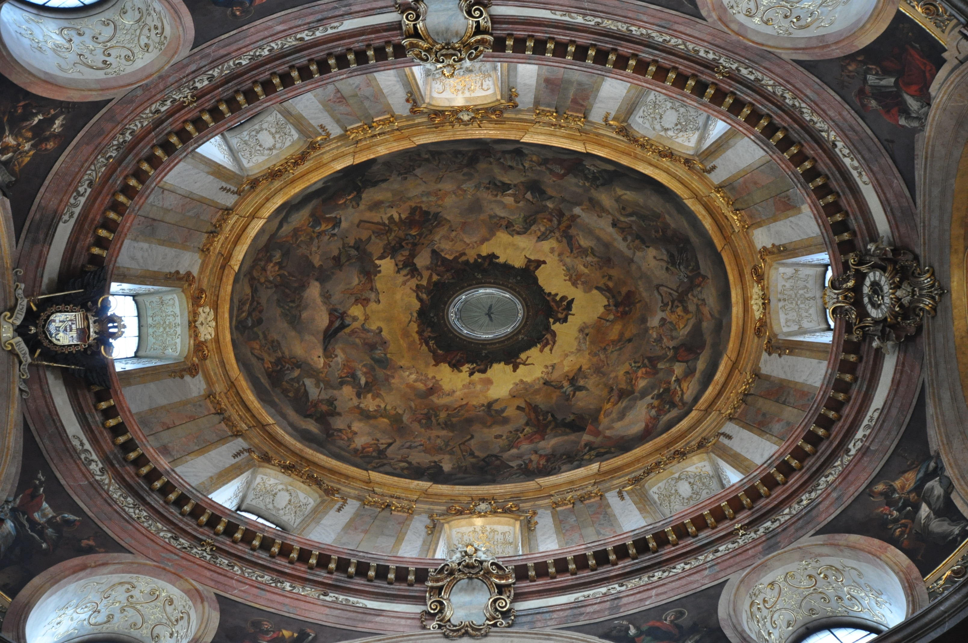 St. Peter's church dome detail (Peterskirche)